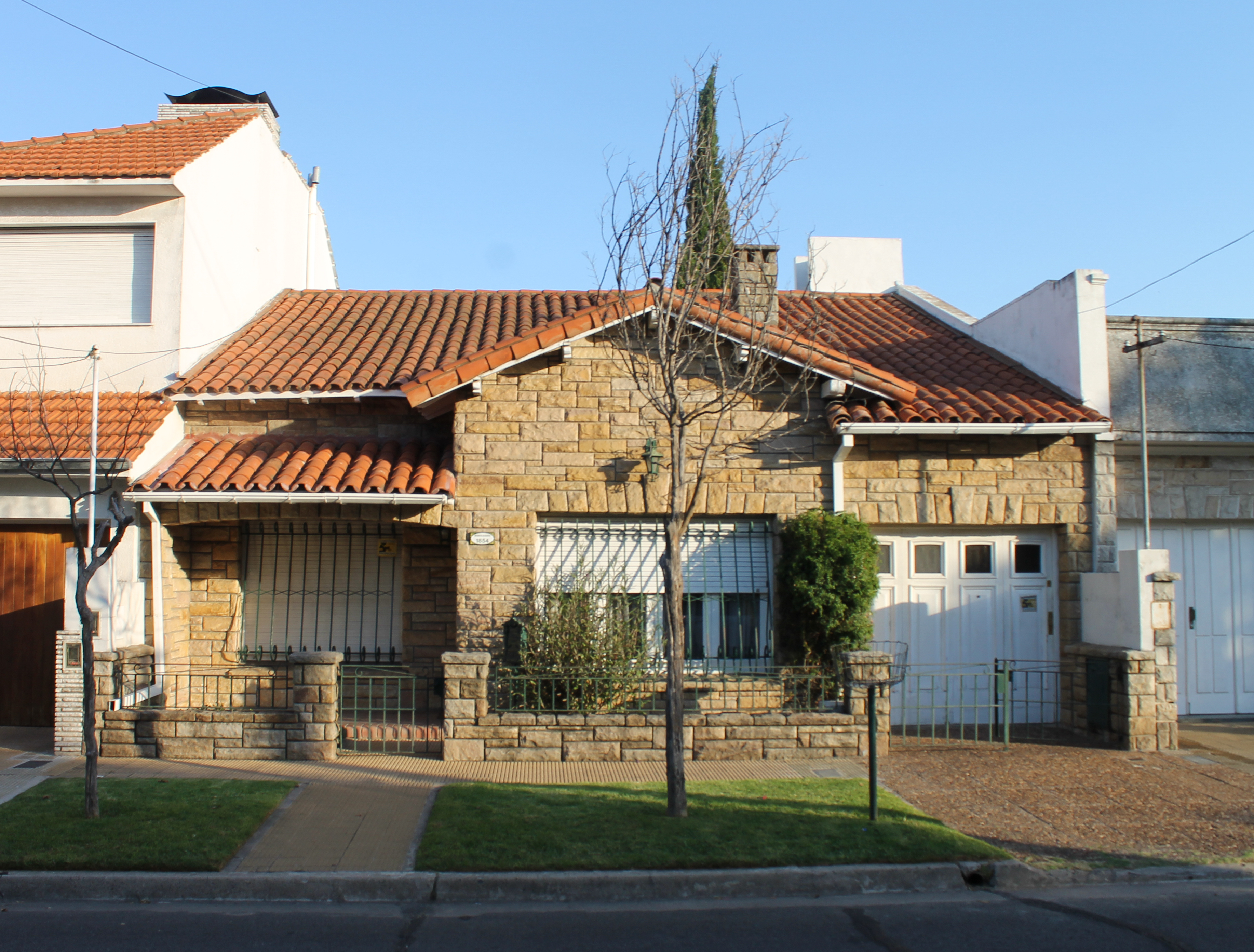 One floor house in Florida, Buenos Aires Province